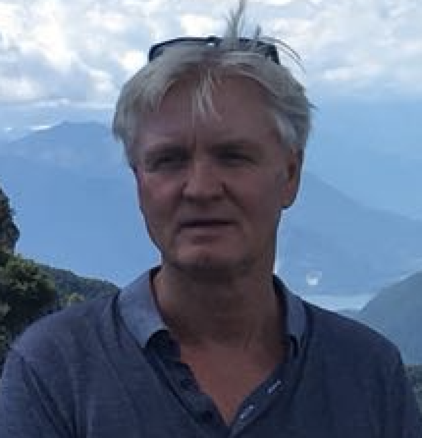 Prof. Bert Poolman, a Dutch scientist